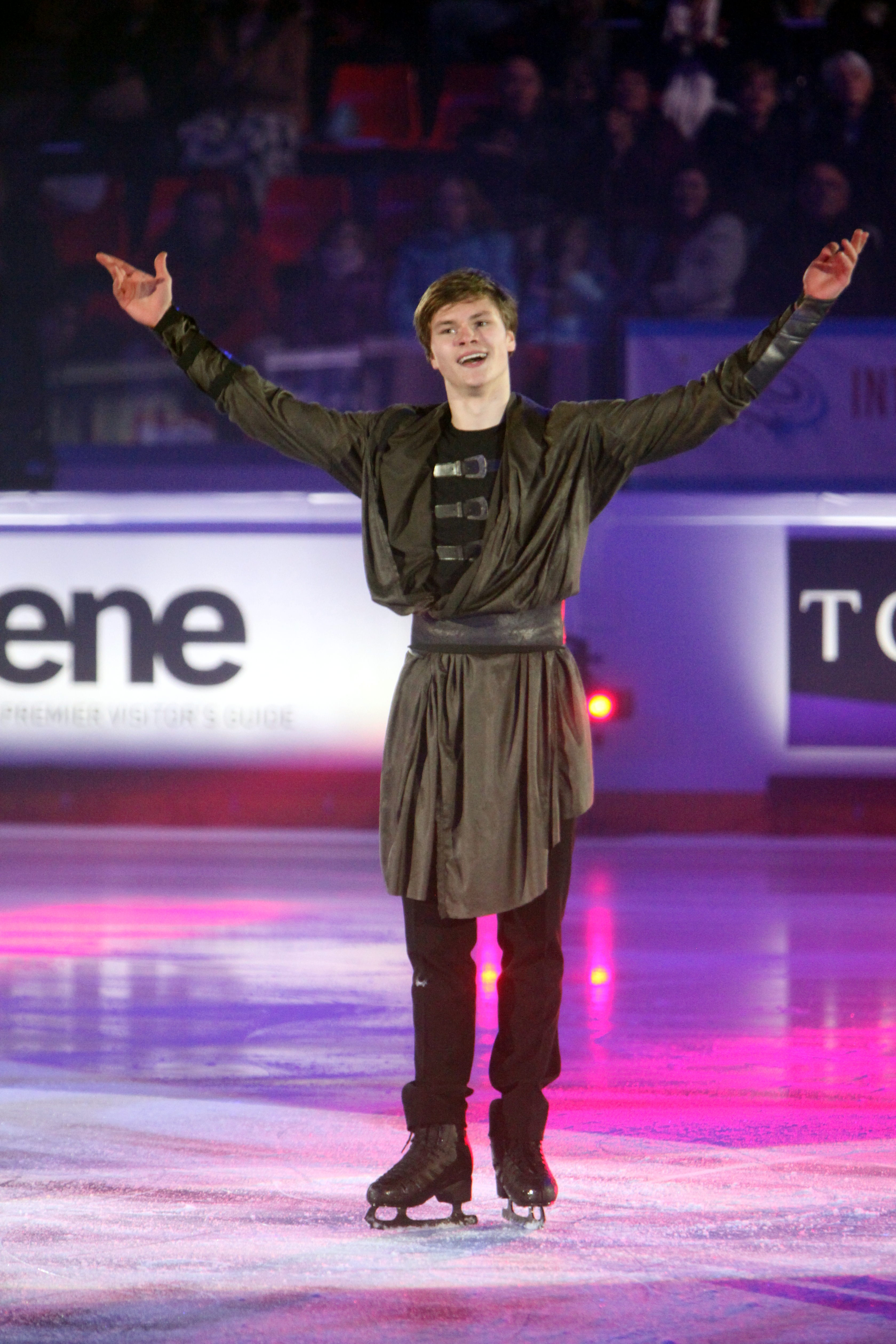 Dmitri Aliev during the gala at the Internationaux de France de Patinage 2018.